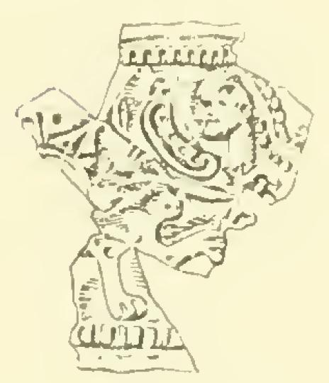 Griphon with Goddess.